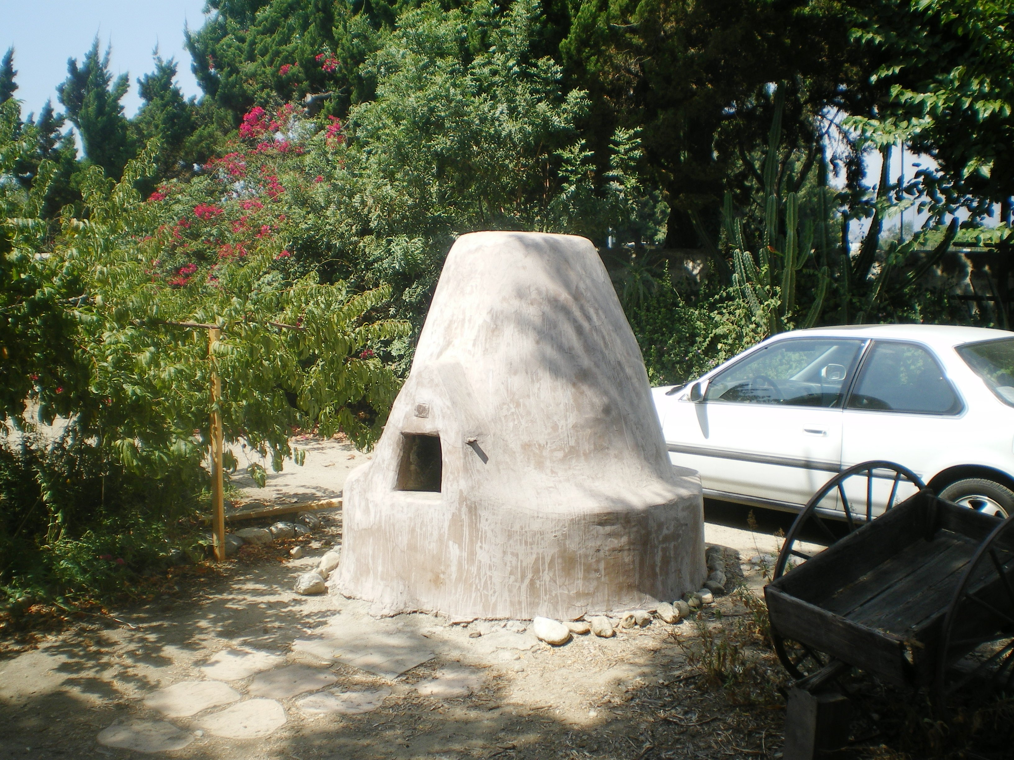 Outdoor oven or "horno" at the Ygnacio Palomares Adobe, Pomona, California